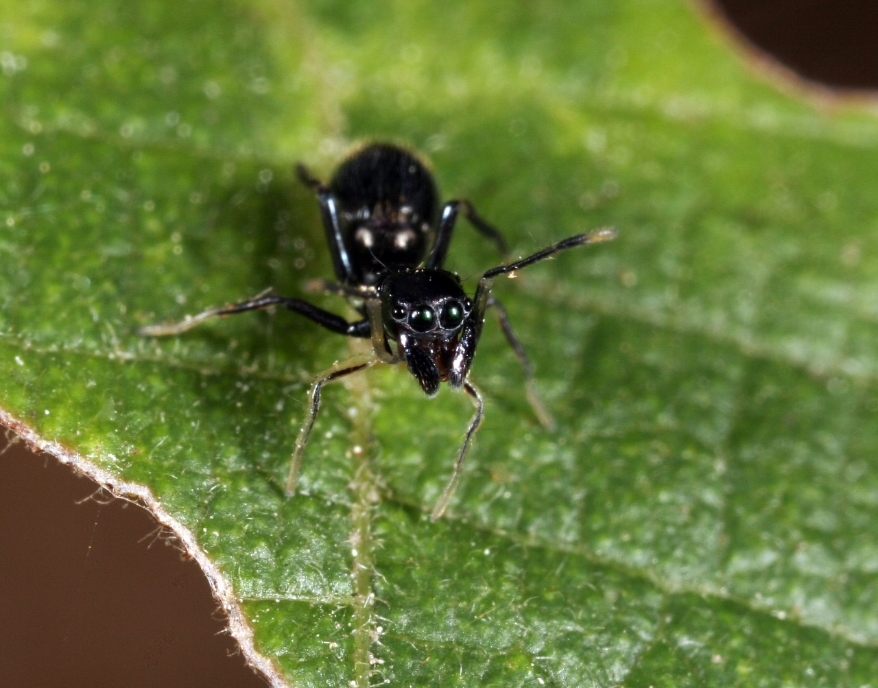 This small spider thinks ants are so cool that its trying to be one! Its "antennae" are actually its front legs, which it waves in the same way that worker ants wave their antennae.